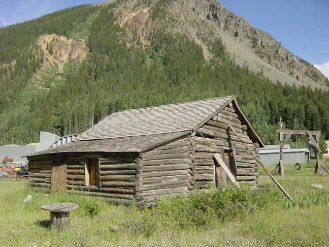 Old cabin at Howardsville, Colorado, USA. In the background is the west ridge of Galena Mountain.